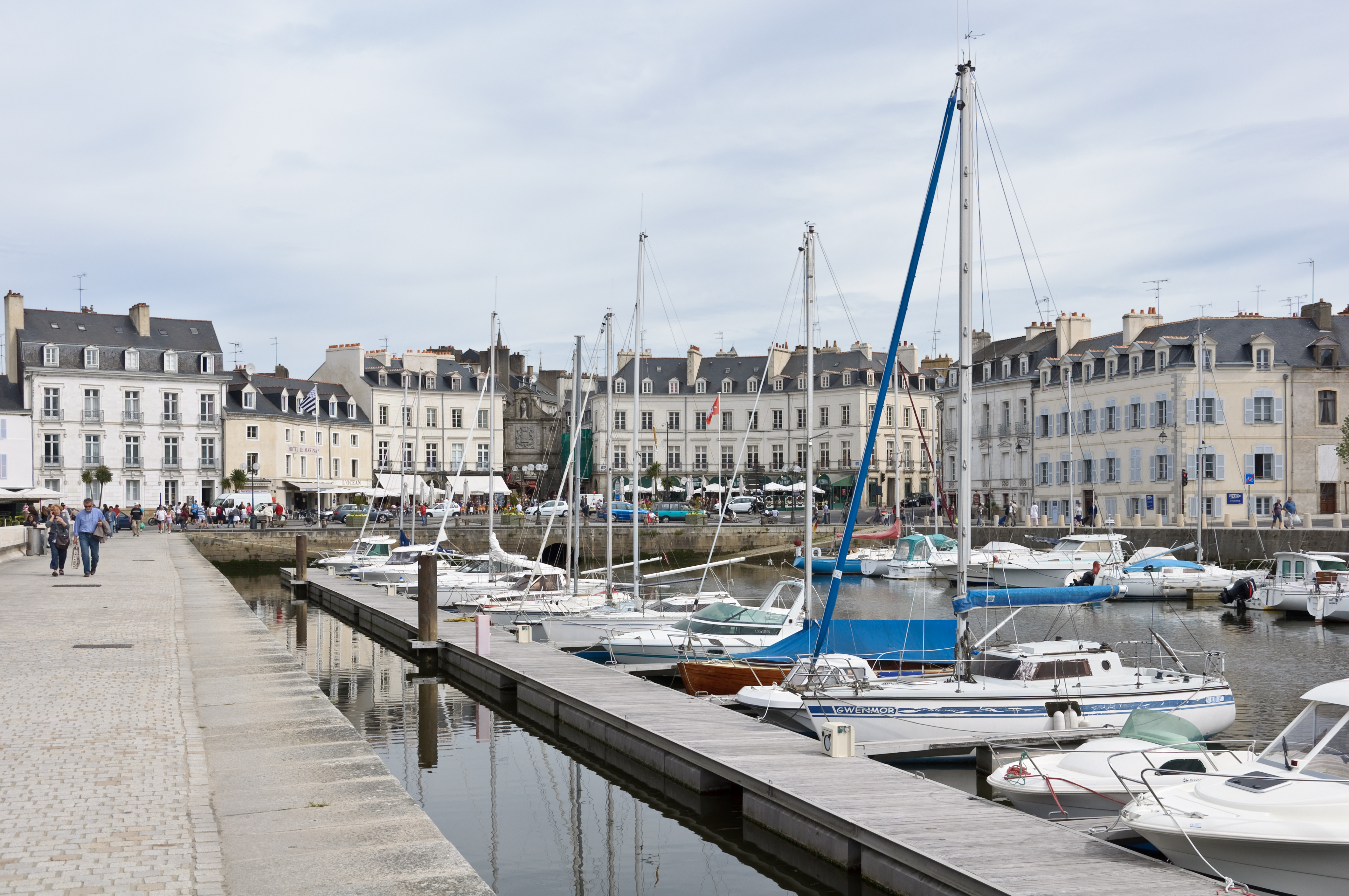 The port of Vannes, Morbihan, France: quay Éric Tabarly, at the foot of St. Vincent gate.